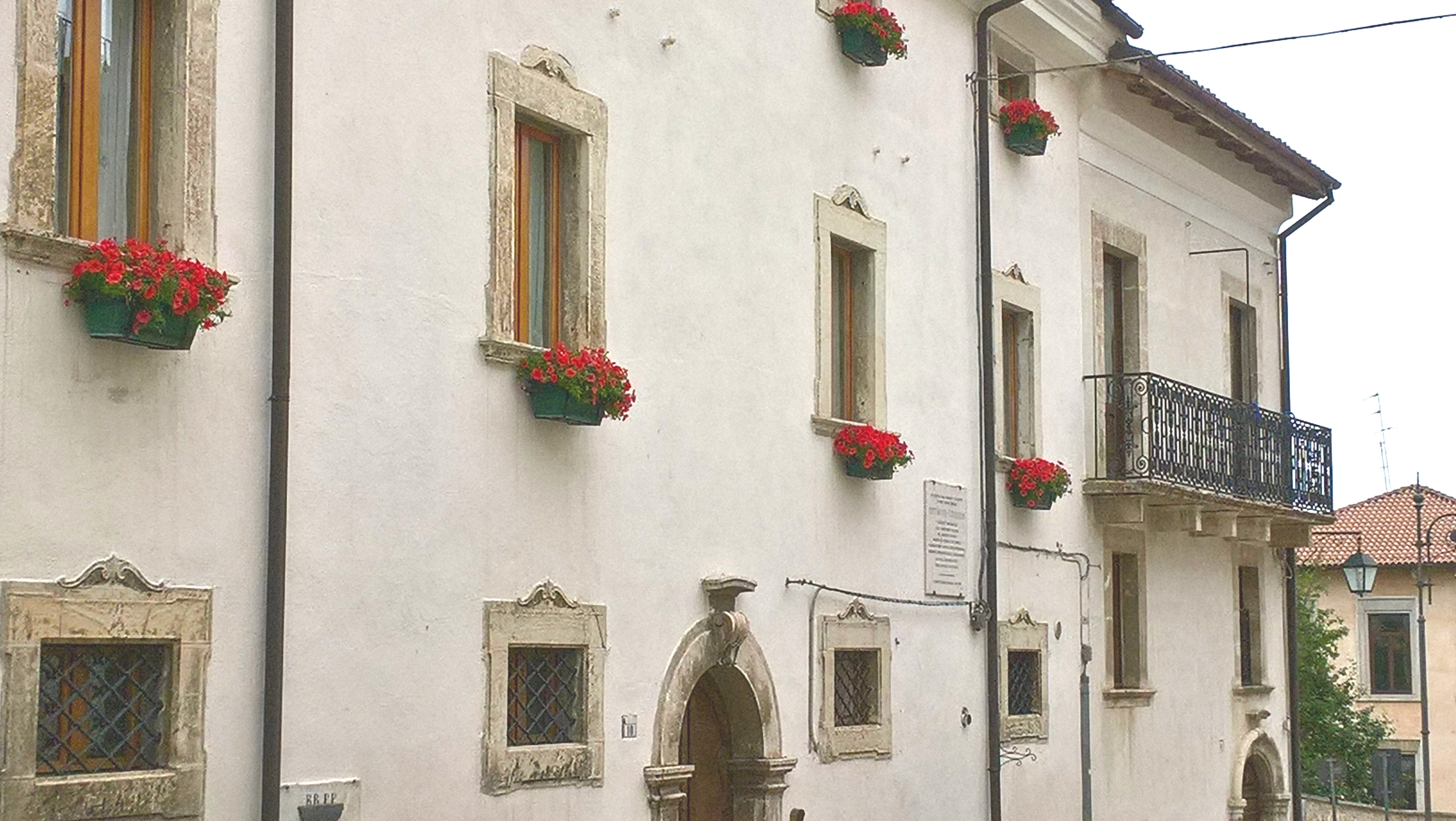 Birth house of Ottavio Colecchi